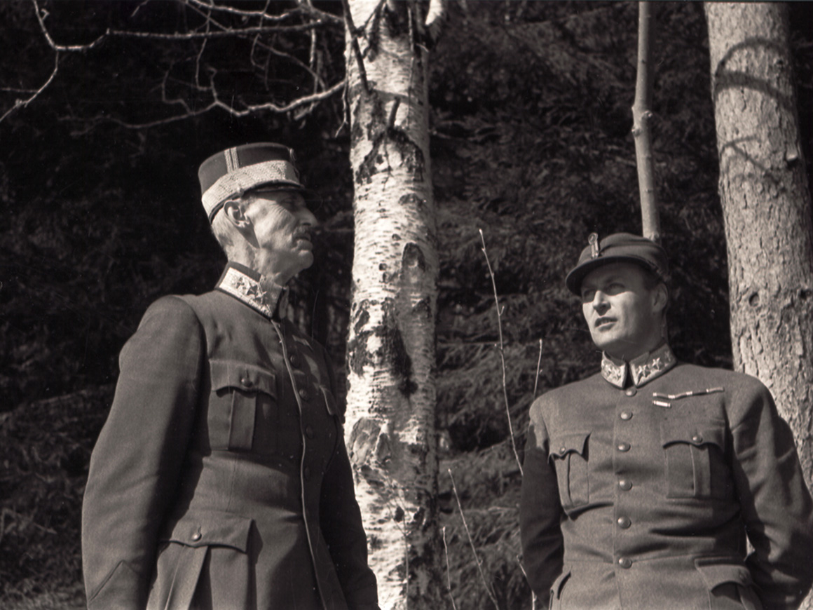 King Haakon VII and Crown Prince Olav looking for shelter in a grove near Molde during a German bombing of the town in April 1940.